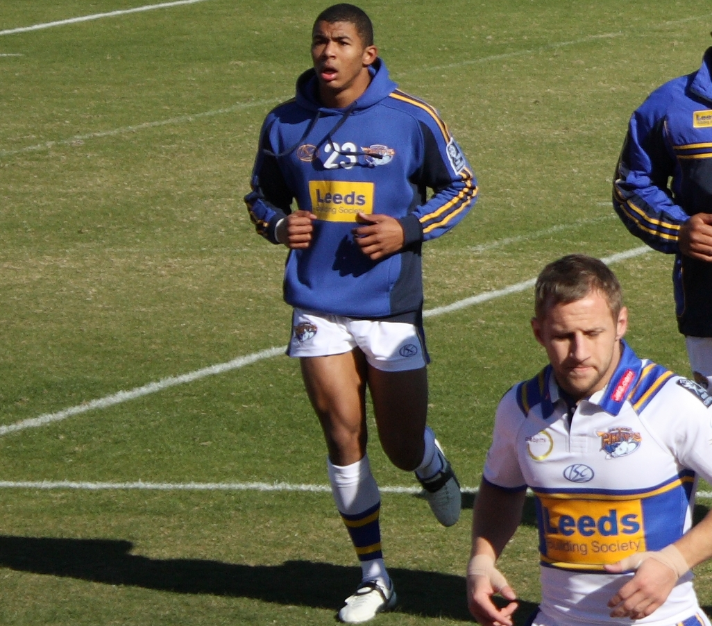 Rugby 2009 1